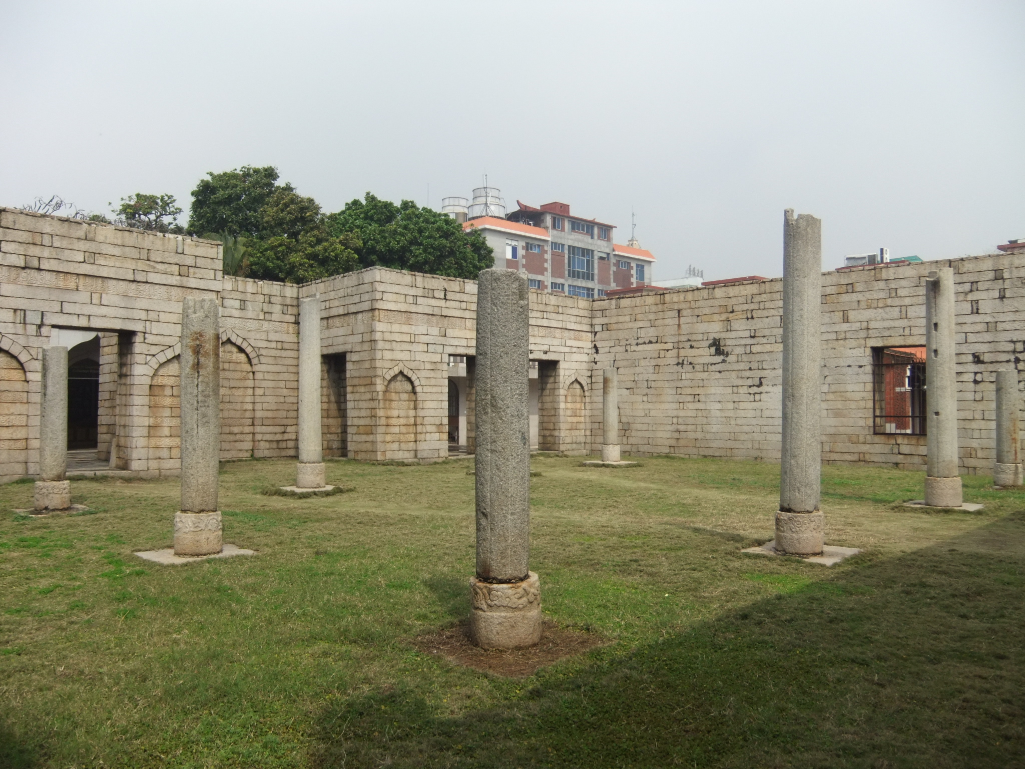 Qingjing Mosque, a.k.a. Ashab Mosque, the main mosque of Quanzhou.